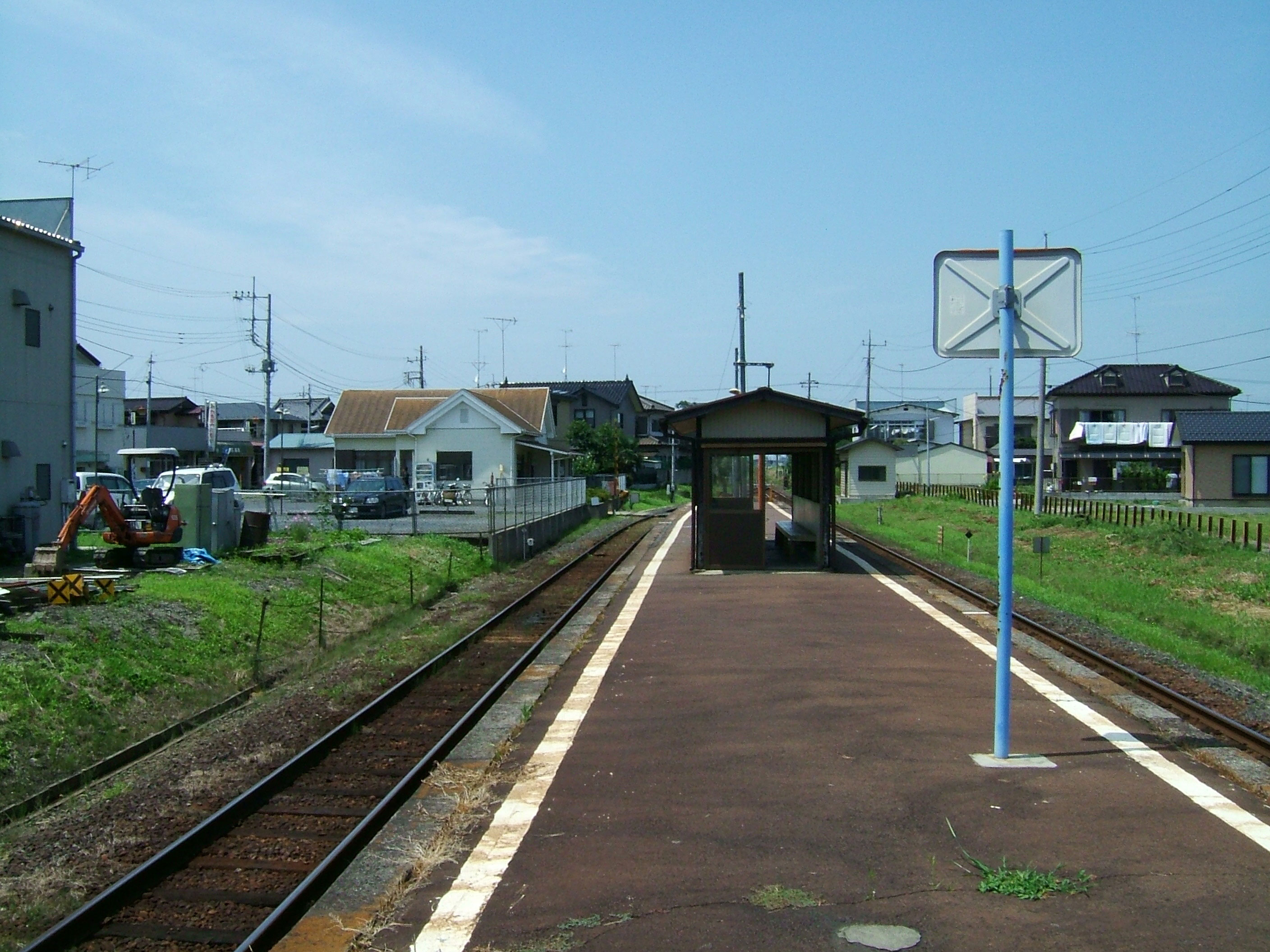 Mitsuma Station platform (Kanto Railway Jōsō Line)